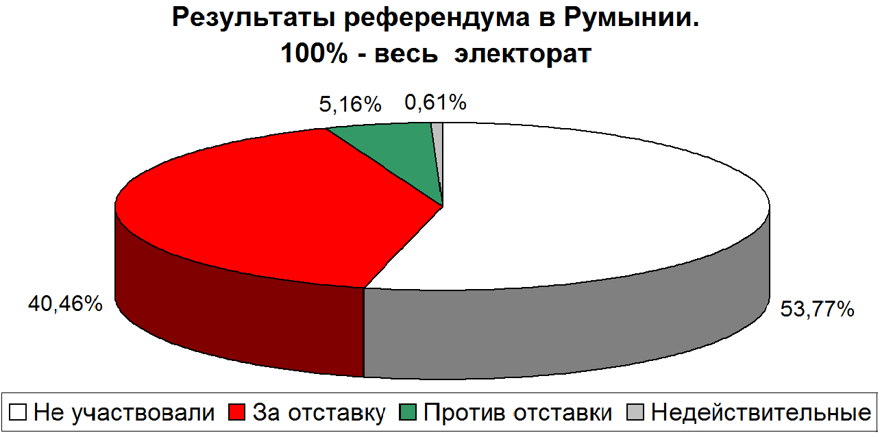 The diagram with the results of the referendum in Romania (2012)